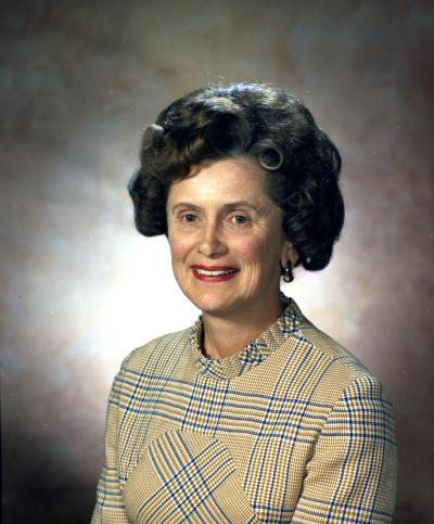 Washington State Rep Lois North